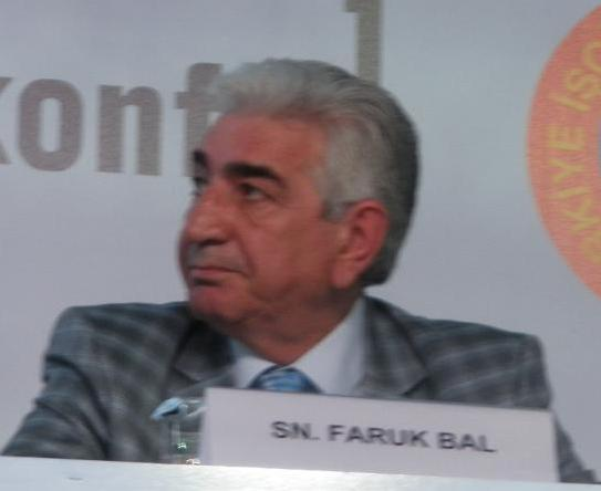 Faruk Bal, Turkish politician.